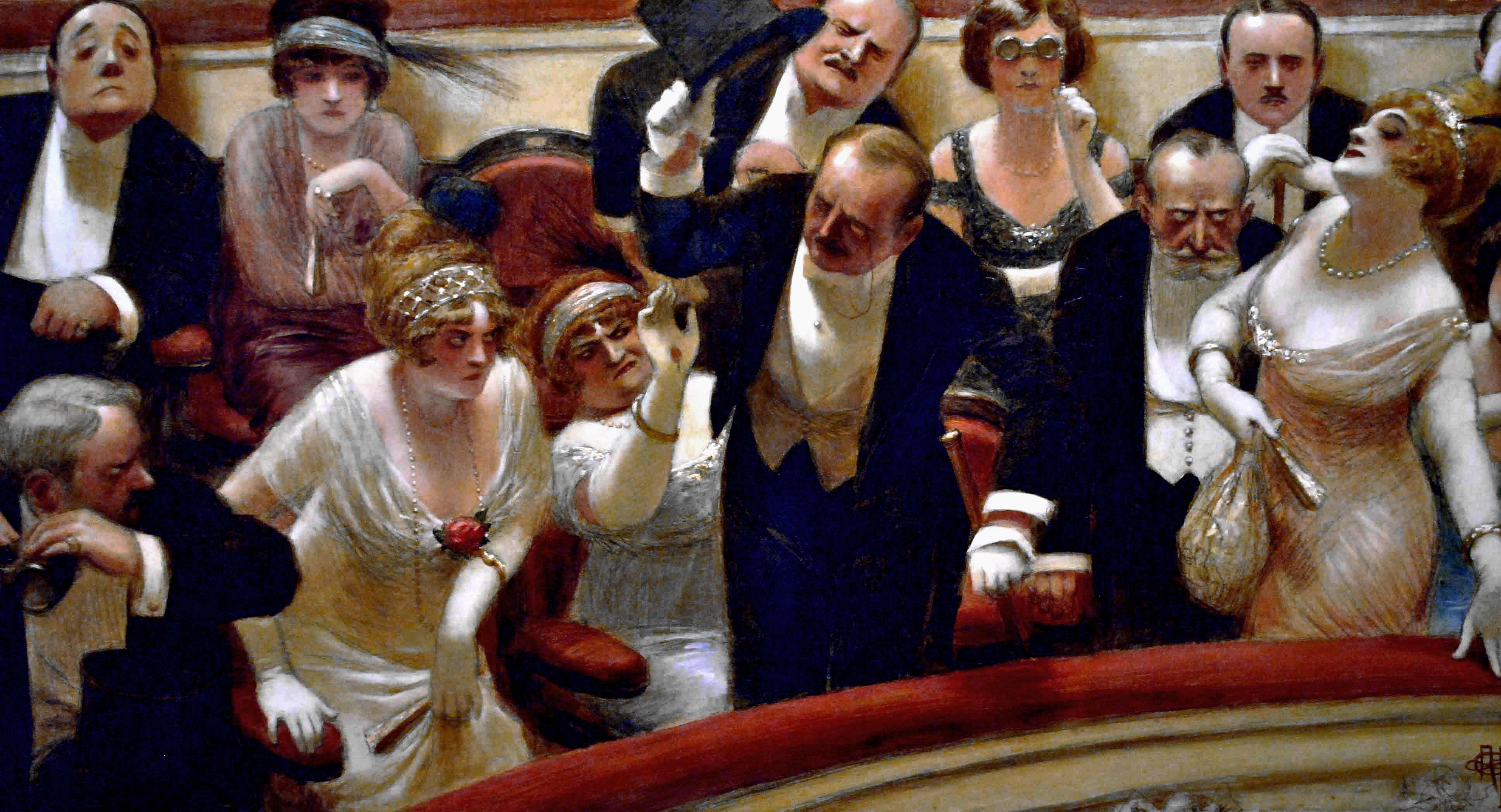 The latecomers